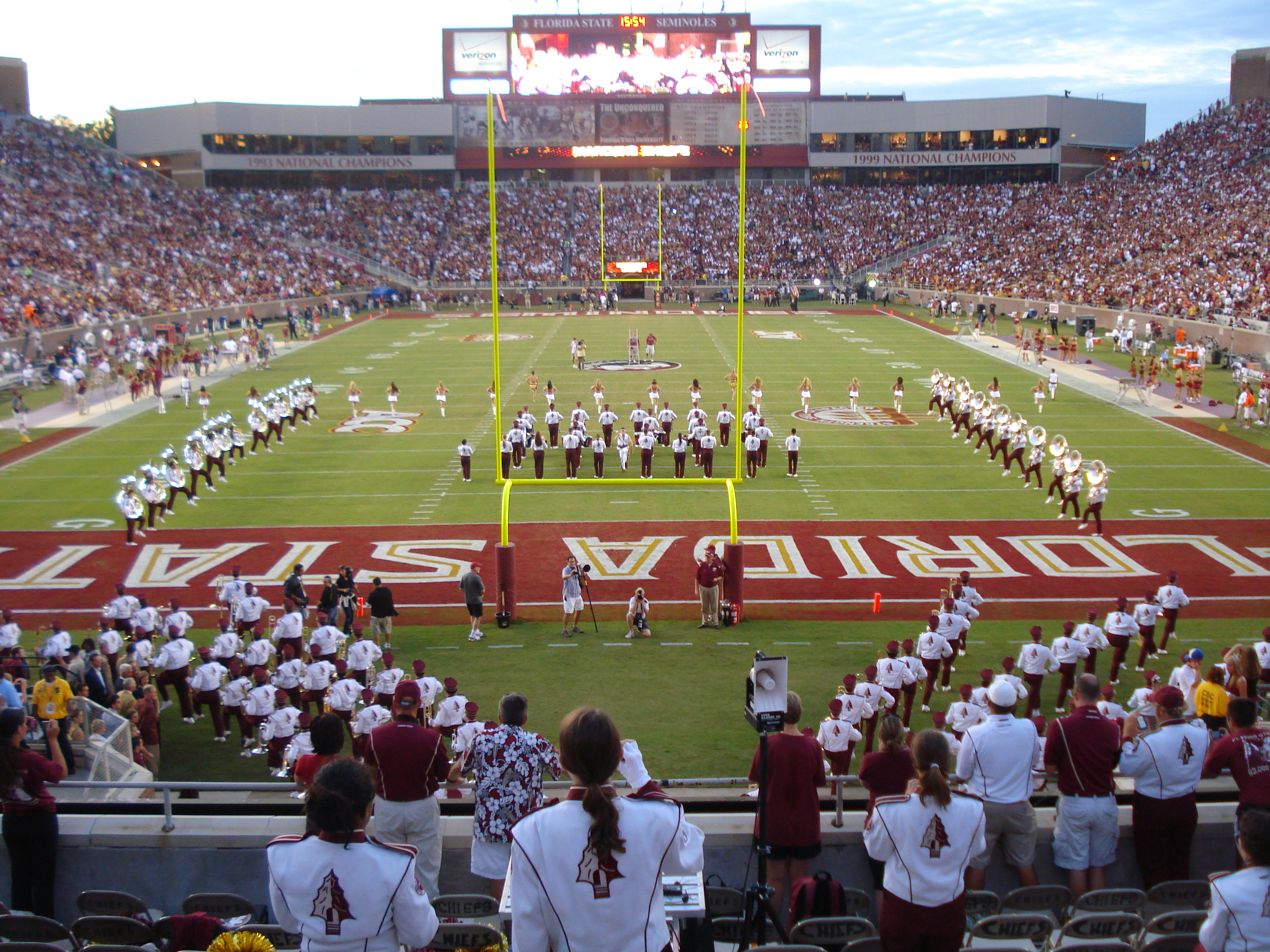 Marching Chiefs exiting the Elephant Doors in preparation for Go Cadance before Pre-Game.